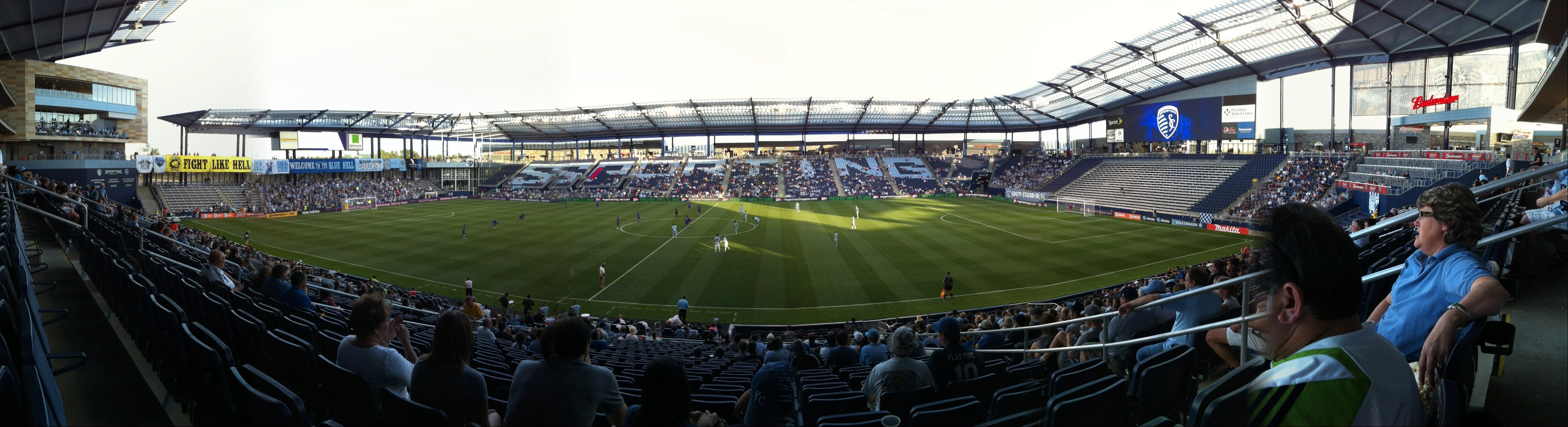 Livestrong Sporting Park - Kansas City